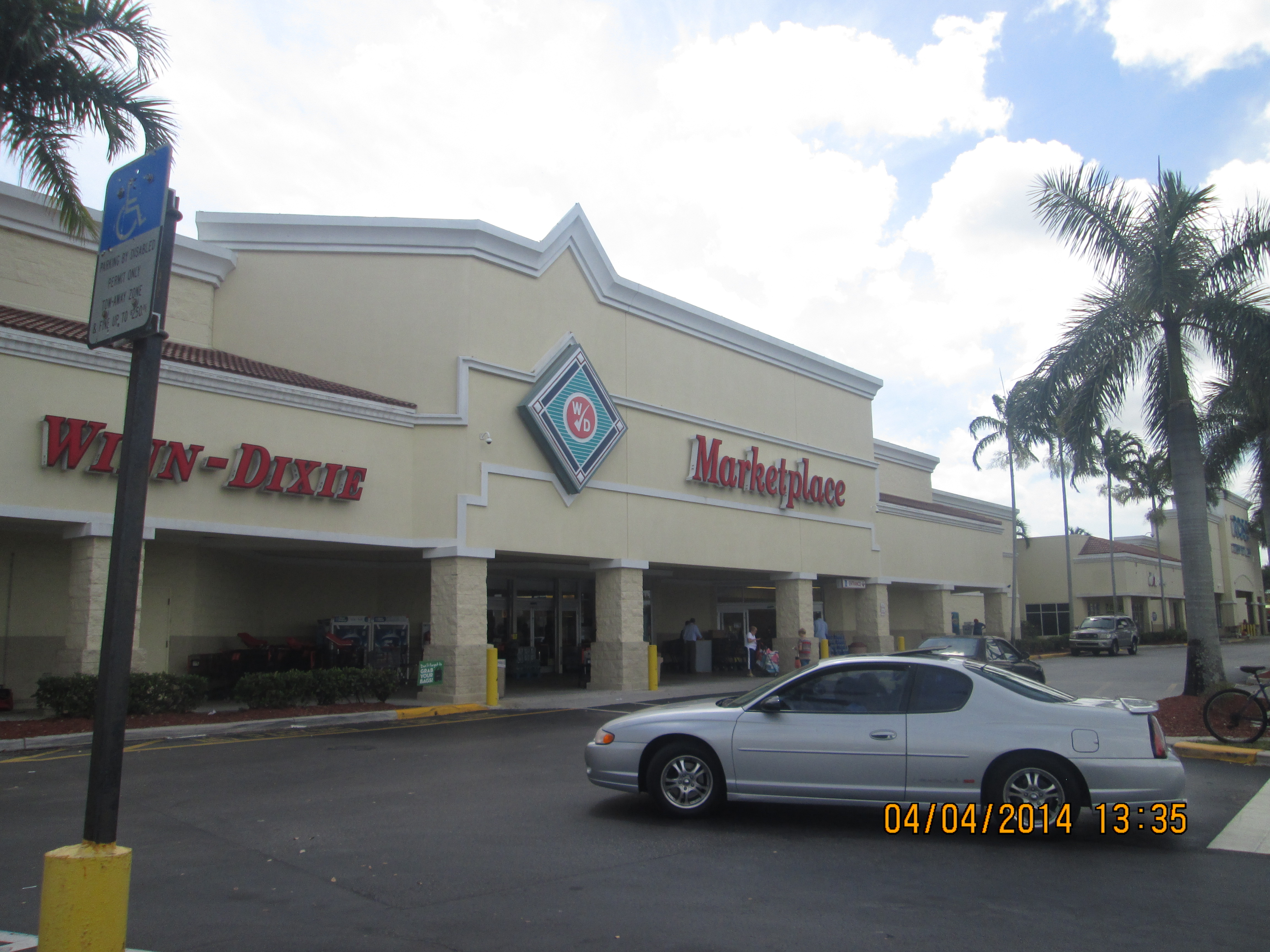 a Winn-Dixie branded as Winn-Dixie Marketplace store located in West Palm Beach FL on Okeechobee Boulevard & Military Trail